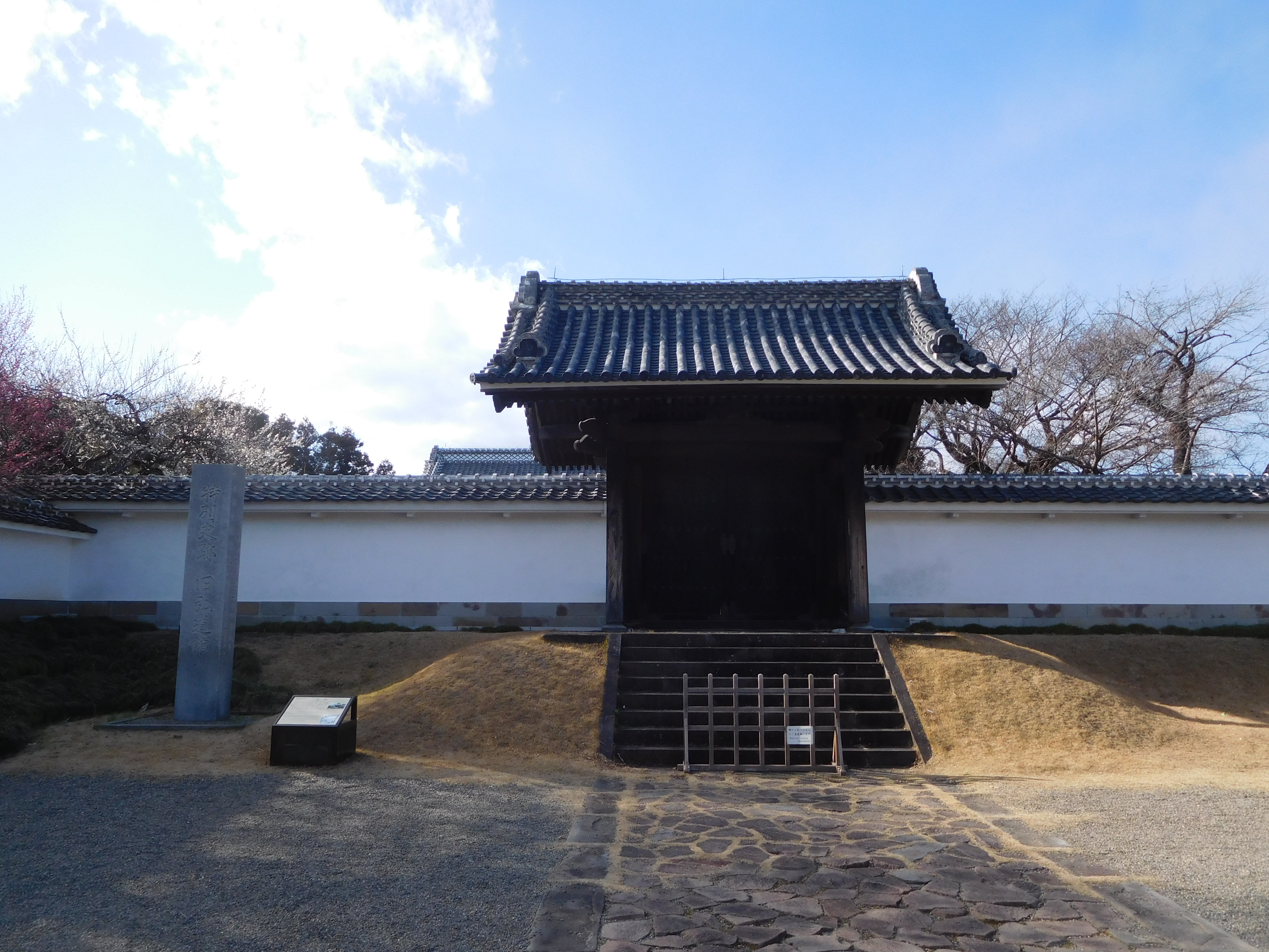 This is a gate of Kodokan in Mito, Japan.